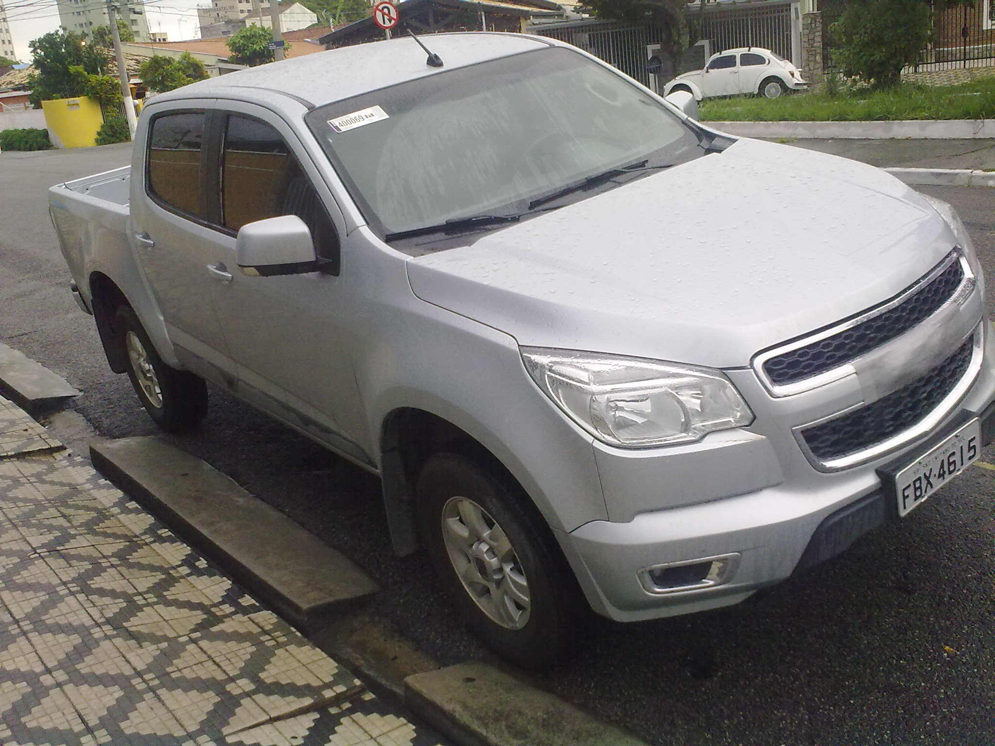 2012 All-New Chevy S10